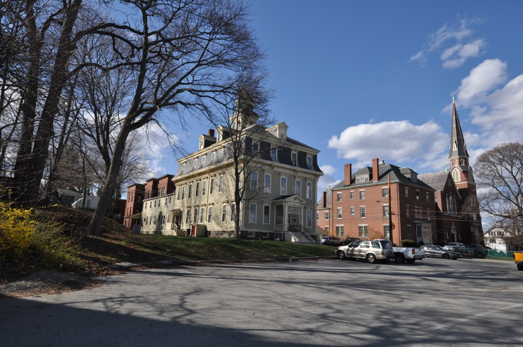 Buildings in the Peabody Civic Center Historic District, Peabody, Massachusetts.